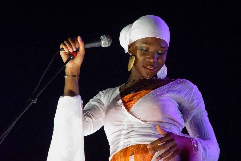 India.Arie performing in Lokeren Belgium 3-8-2004 Māori: E waiata ana a India Arie i a Lokeren i a Paratiamu i 3 o Here-turi-kōkā 2004.